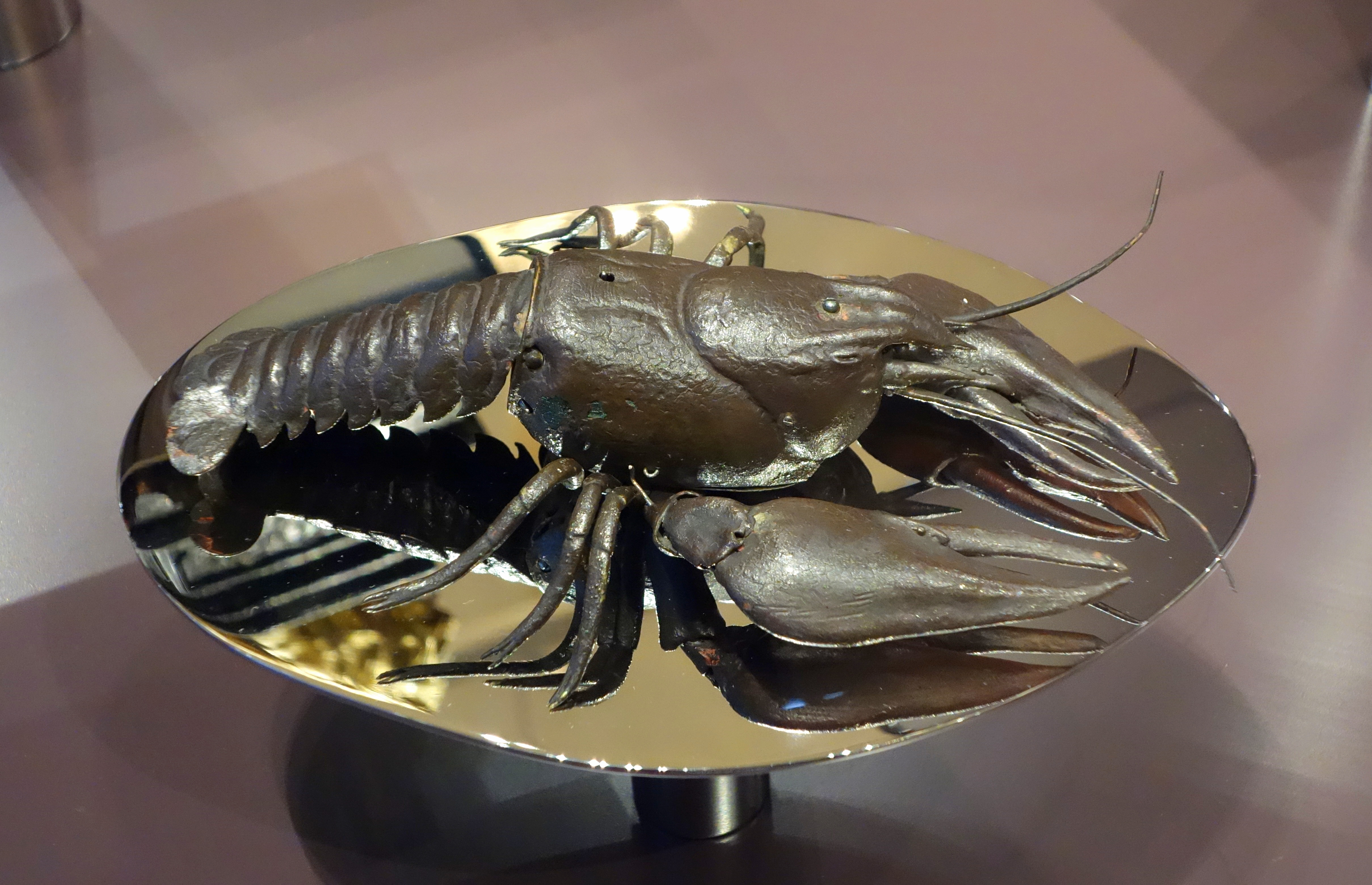 Exhibit in the Mathematisch-Physikalischer Salon (Zwinger), Dresden, Germany. This artwork is old enough so that it is in the public domain.